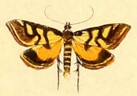 Metallarcha beatalis Felder & Rogenhofer, Reise der Osterreichischen Fregatte Novara, Band 2, Abtheilung 2 (5) (1875), plate 135.5